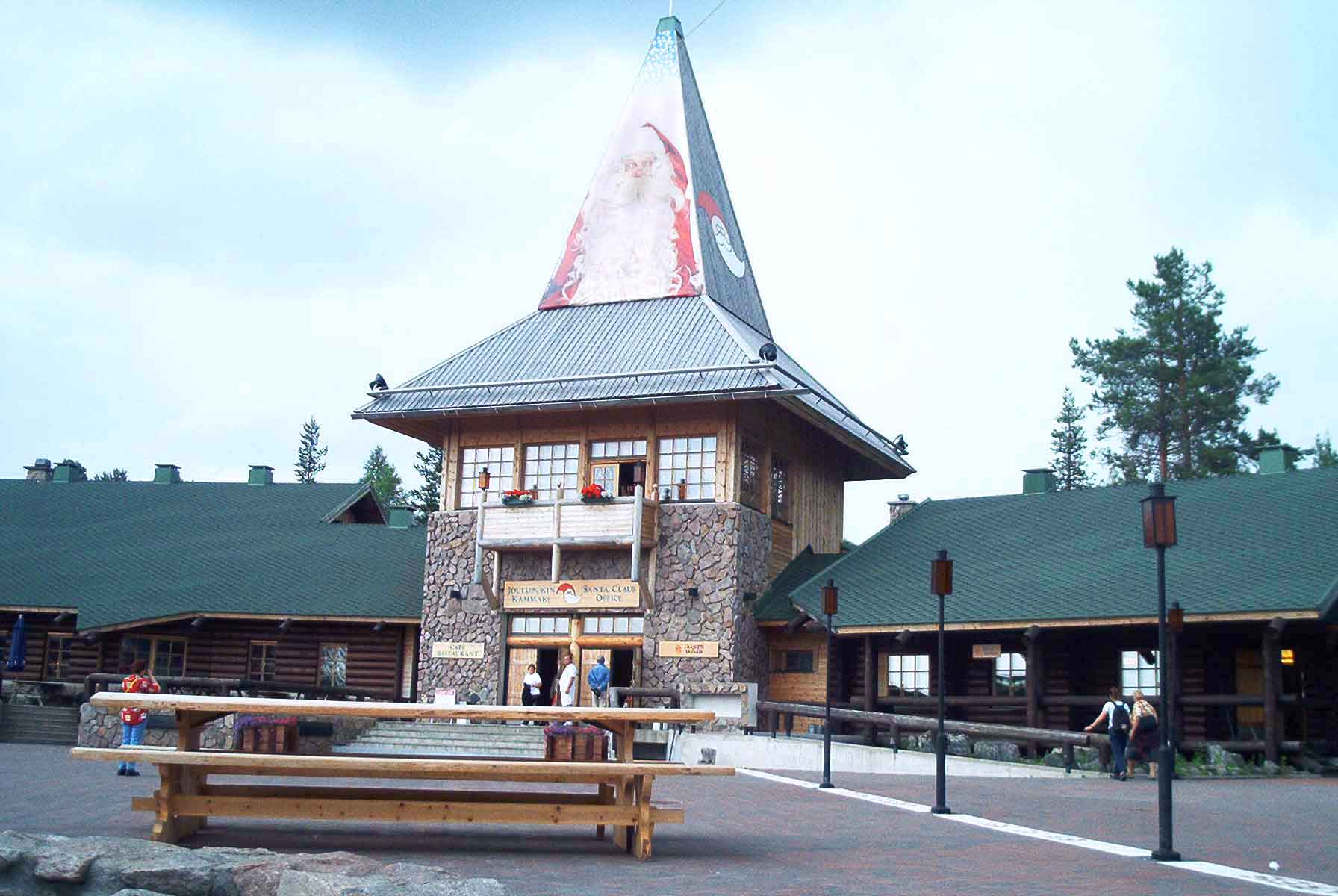 Santa Claus village in Rovaniemi. The white line on the right shows the arctic circle